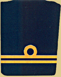 Rank insignia of the Austro-Hungarian Navy (K.u.k. Navy) until 1918, “Lieutenant junior grade” .